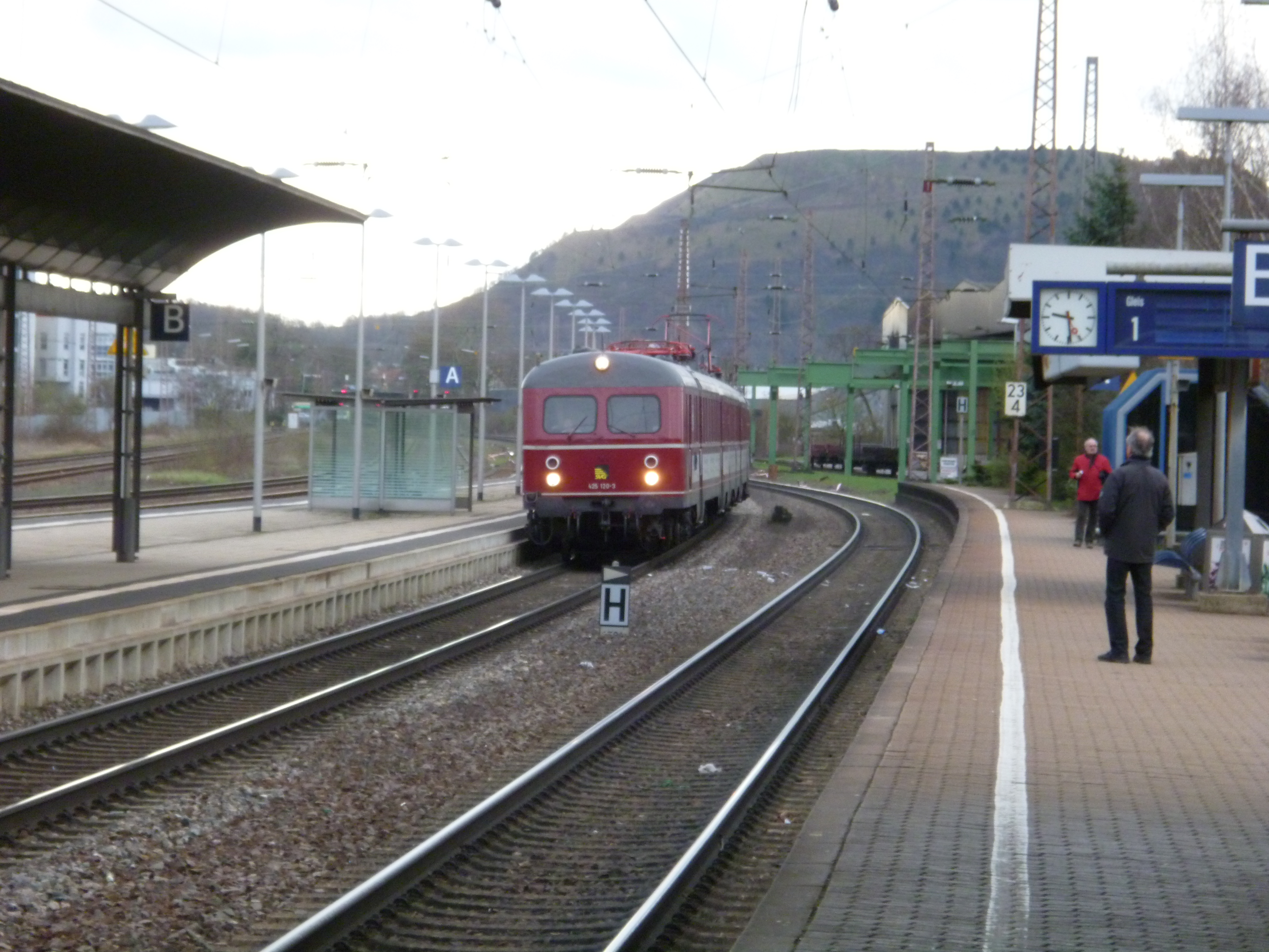 ET 25 entering from the direction Ensdorf in Saarlouis central station